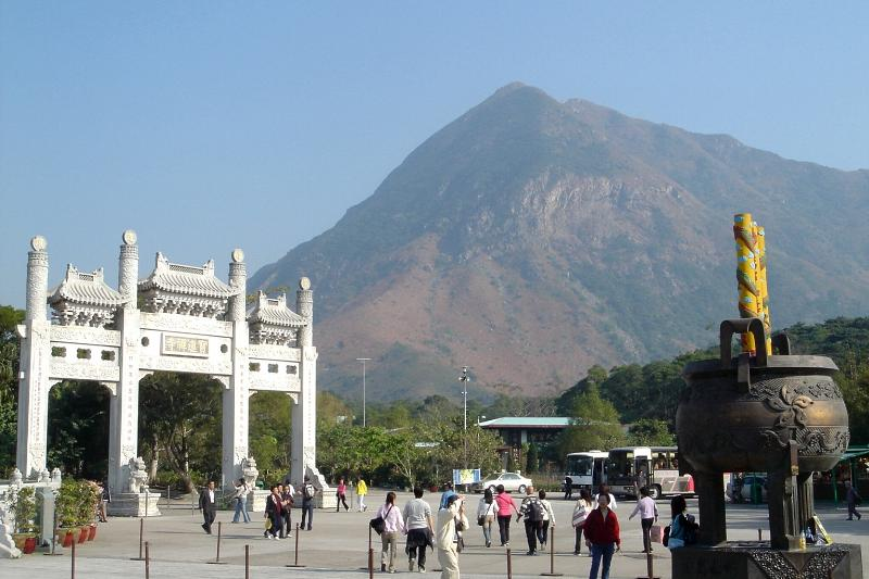 Lantau (at 144 sq Km) is almost twice the size of HK island . Po Lin (Precious Lotus, also known as the "Buddhist Kingdom in the South") is a large Buddhist monastery and temple complex built in 1920 by the Qing Dynasty. It can be reached by bus, and the 2460 feet climb on a very-steep, partially one-way road is an enjoyable part of the trip!